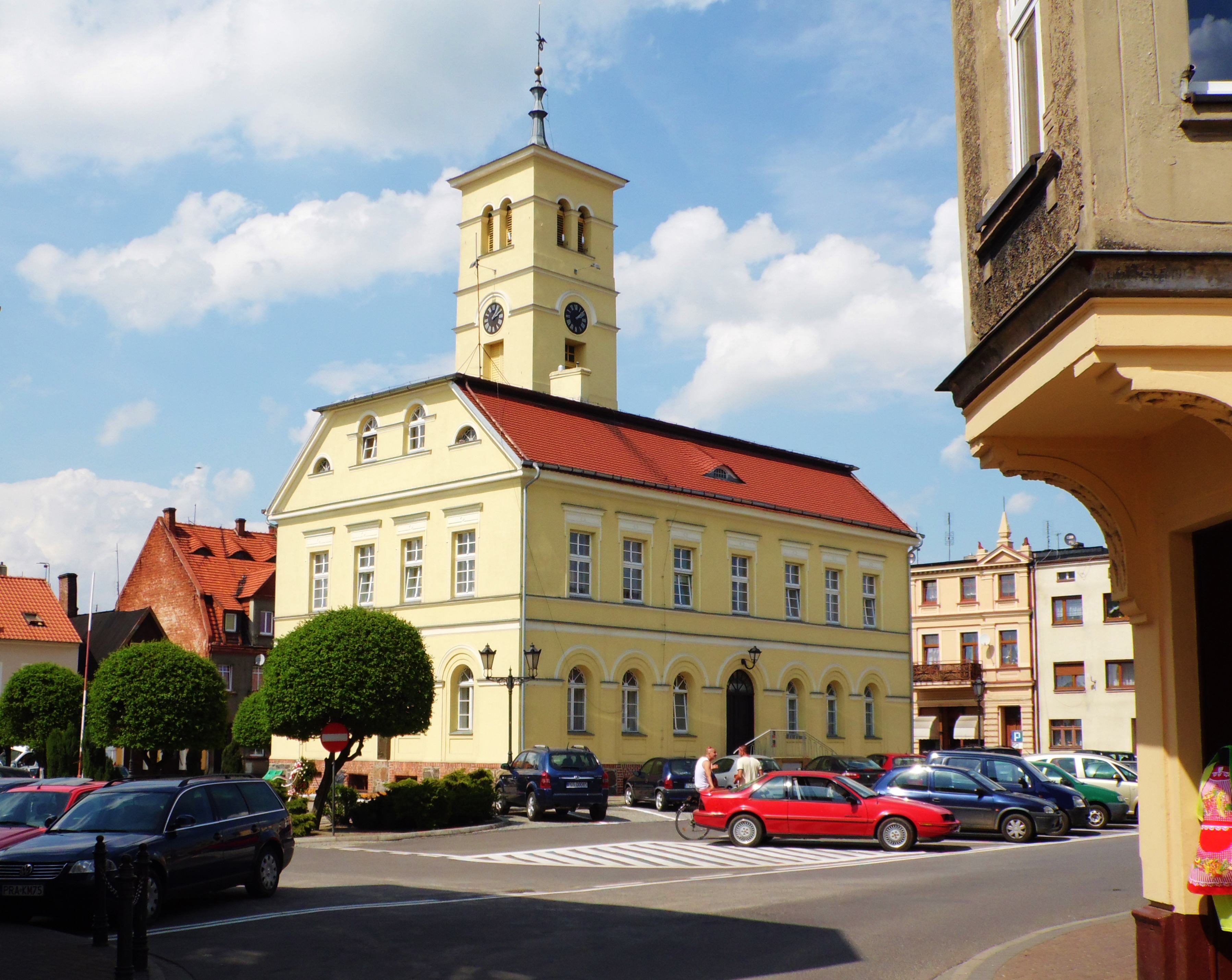 City Hall from 1843 (p. pd. - West.) Poniec / area. gostyński / province. Greater Poland / Poland